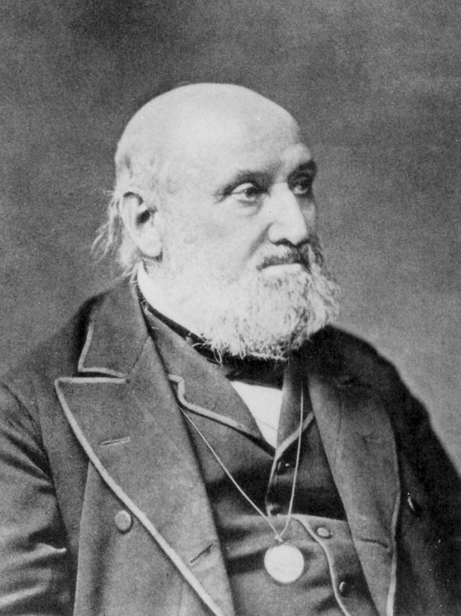 William Farr (30 November 1807 - 14 April 1883)